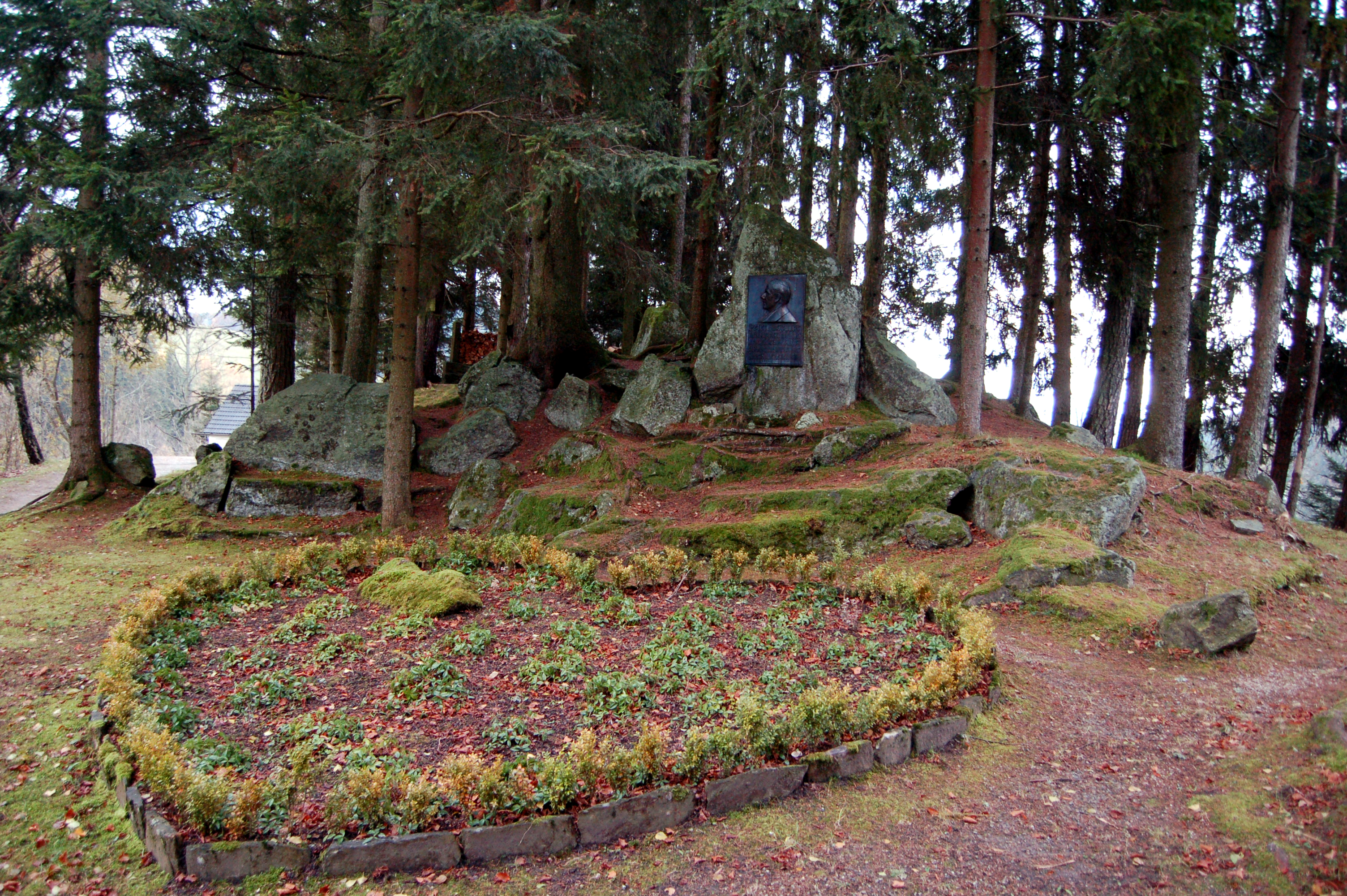 Peter Rosegger Memorial in Sankt Kathrein am Hauenstein, Styria, Austria. Inscription: Peter Rosegger Das ist Dein schönster Ruhm o Dichter Der Du so viel des Schönen schriebst. Dass Du bei allem Ruhm ein schlichter Getreuer Sohn der Heimat bliebst.